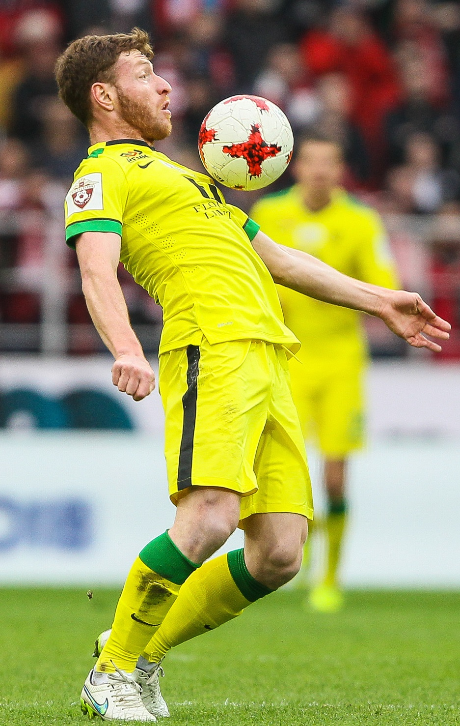 Guram Tetrashvili with FC Anzhi Makhachkala in a game against FC Spartak Moscow.